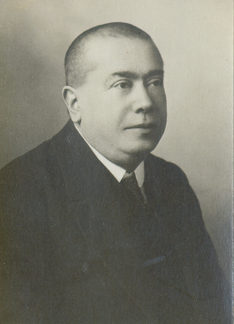 Fran Milčinski (1867-1932), Slovene writer, playwright and jurist.